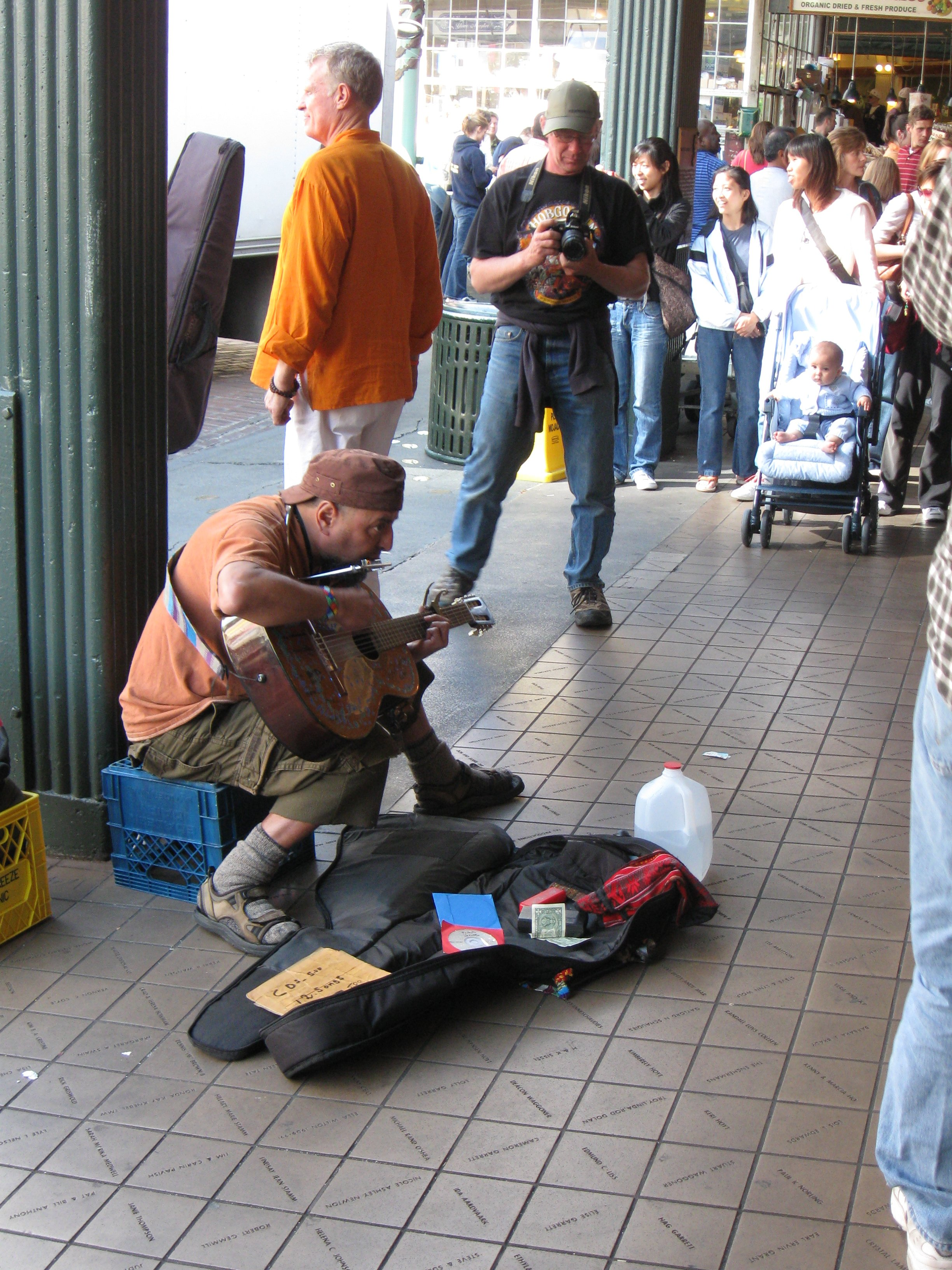 Pike Place Market busker